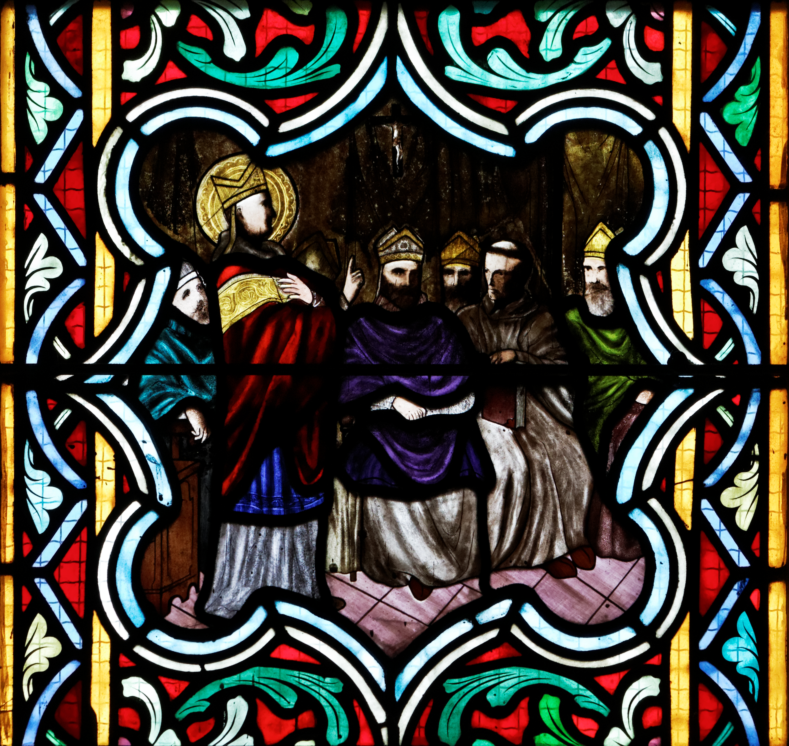 At the Council of Bari, before 123 [actually, 185] bishops, St Anselme speaks against the continuing Greek adherence to the true Nicene Creed, an argument later compiled as his De Processione Spiritus Sancti ("On the Procession of the Holy Spirit"). Panel 14 of the Vitrail of St Anselm in St Corentin Cathedral in Quimper, Finistère, Brittany, France.